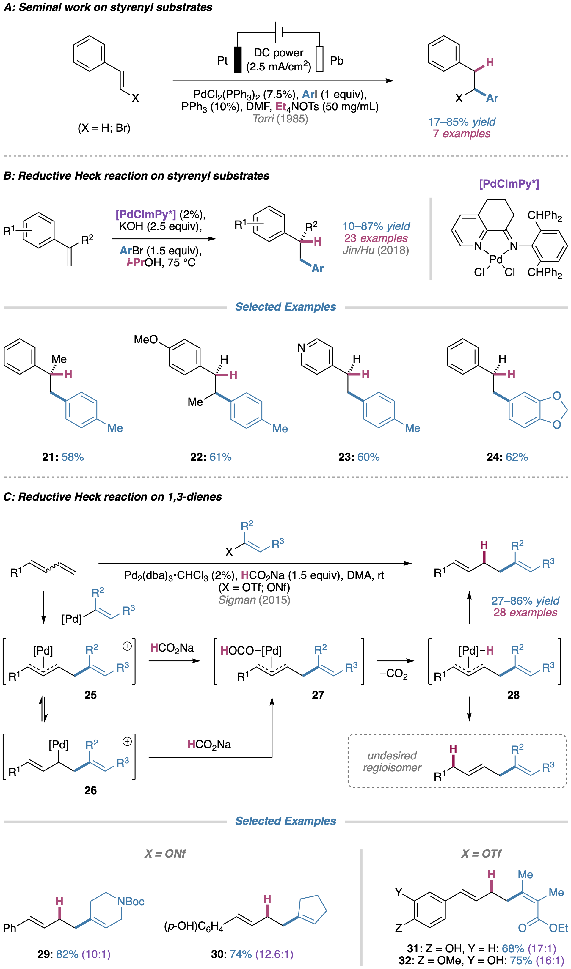 Reactions with Styrenes. (A) Torri’s seminal work on the electro-reductive Heck reaction of styrenyl substrates. (B) Reductive Heck couplings between styrenes and aryl bromides. (C) Reductive Heck reactions of 1,3-dienes proceeding through a π-allyl intermediate.